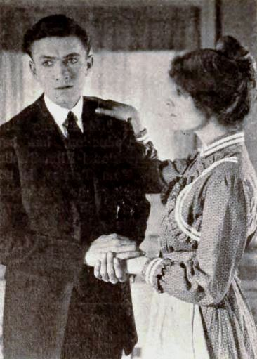 Still from the American drama film Hearts of Youth (1921) with Harold Goodwin and Lillian Hall, on page 74 of the June 18, 1921 Exhibitors Herald.